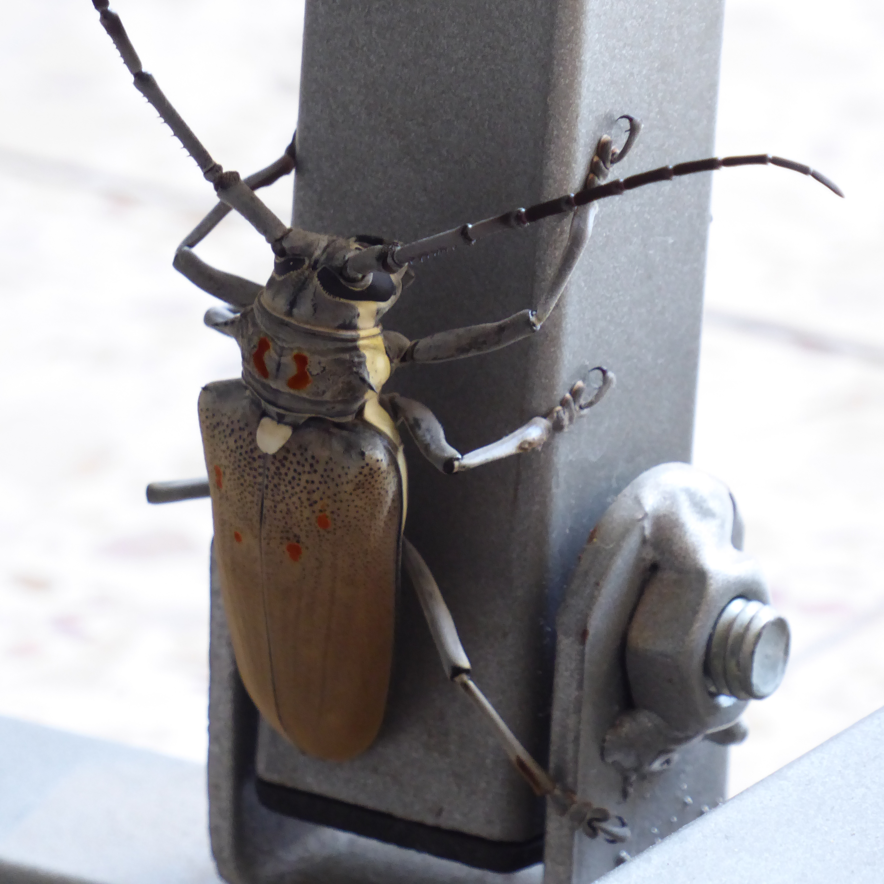 Batocera rufomaculata